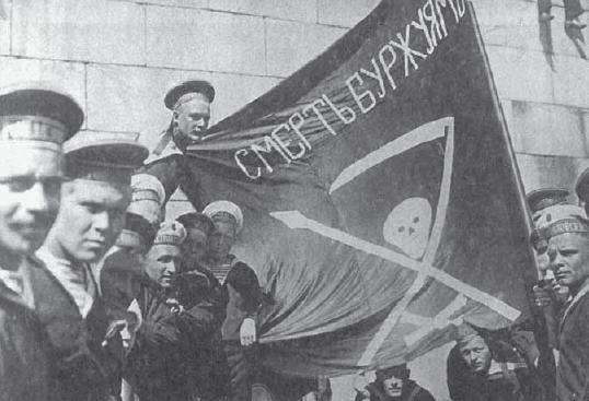 Revolutionary Russian sailors of Russian Imperial Navy battleship Petropavlovsk in Helsinki during summer 1917. Flag carries text "Death to the bourgeois". (Location most likely Helsinki Senate Square; the wall of Helsinki Cathedral shown in the background.)